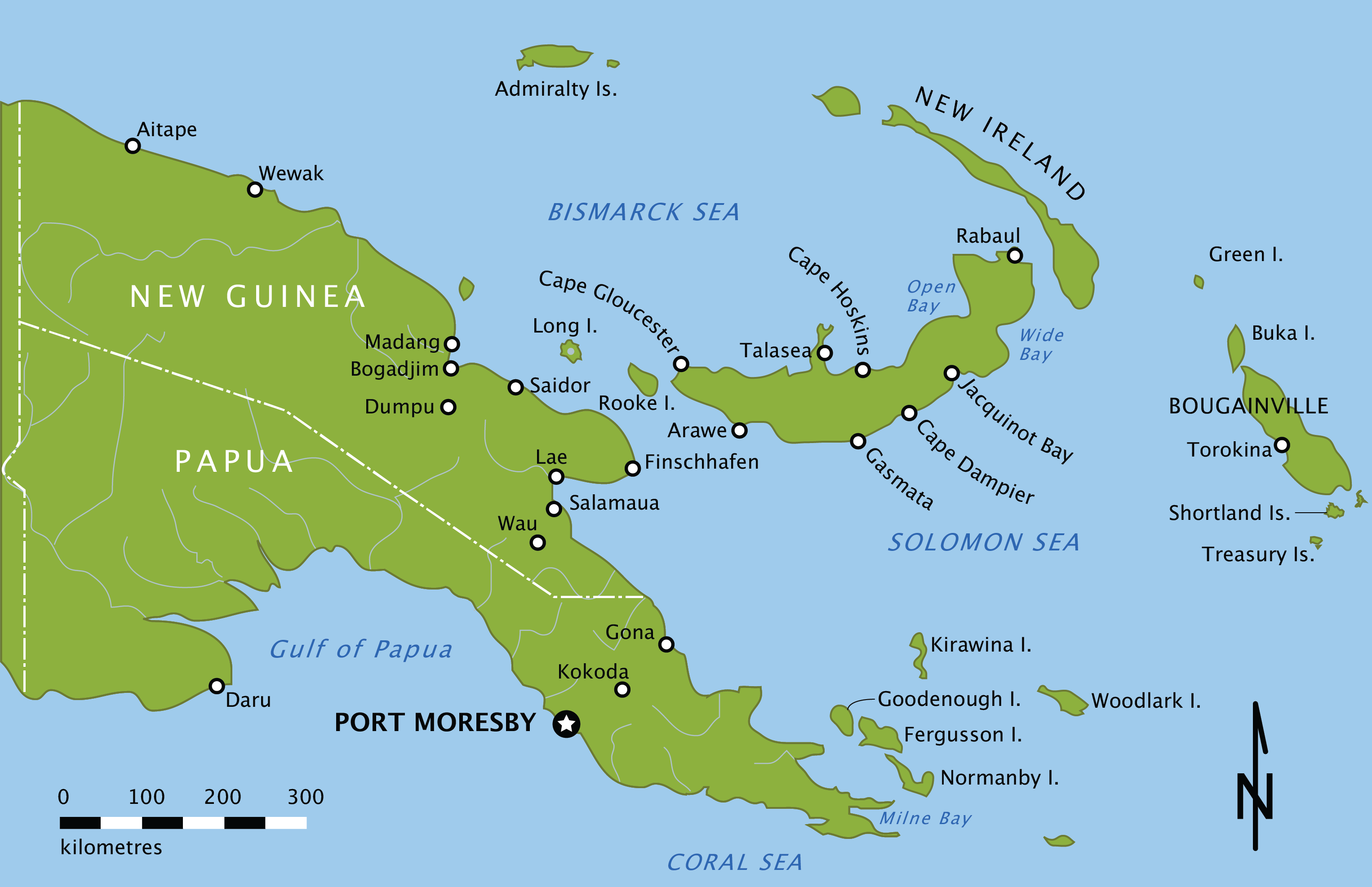 Map of the Mandated Territory of New Guinea, Papua and Bougainville 1942-45 showing sites of various battles and strategic locations